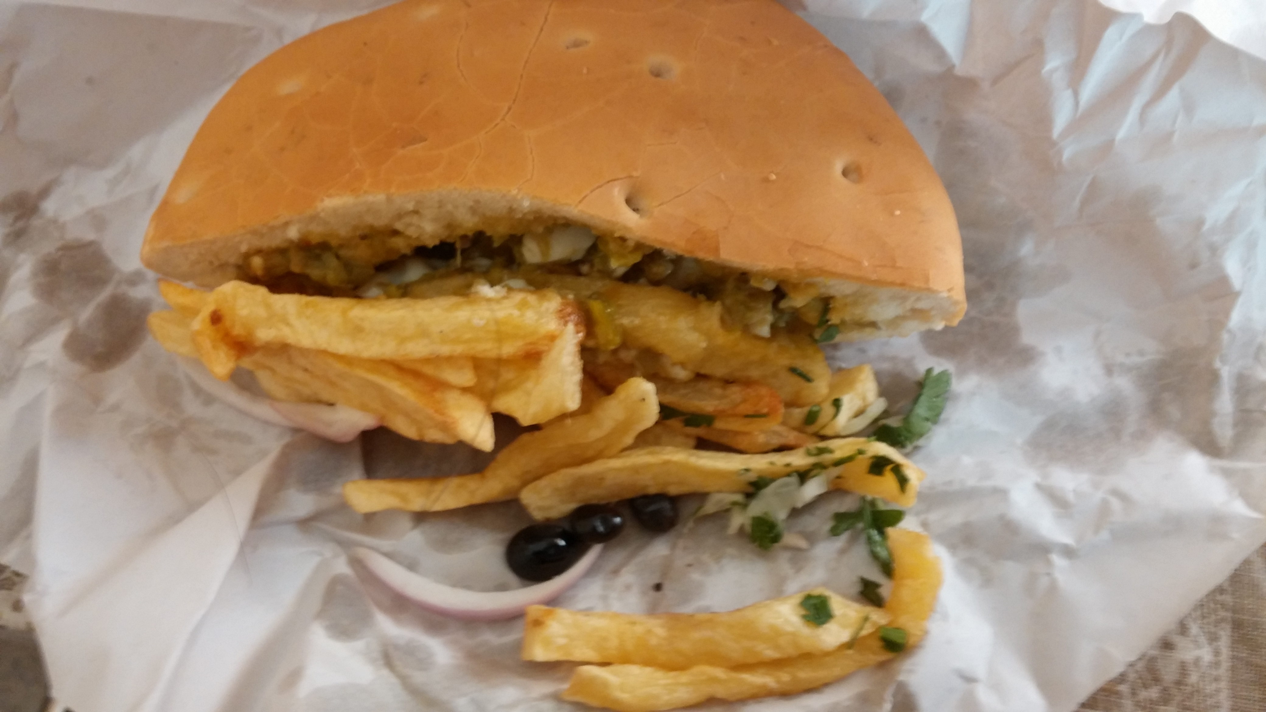 Kafteji is the most known sandwich of the city of Kairouan. It is a little bit spicy. It's made of pepper, tomato, an egg and especially harissa. This is an image of food from Tunisia